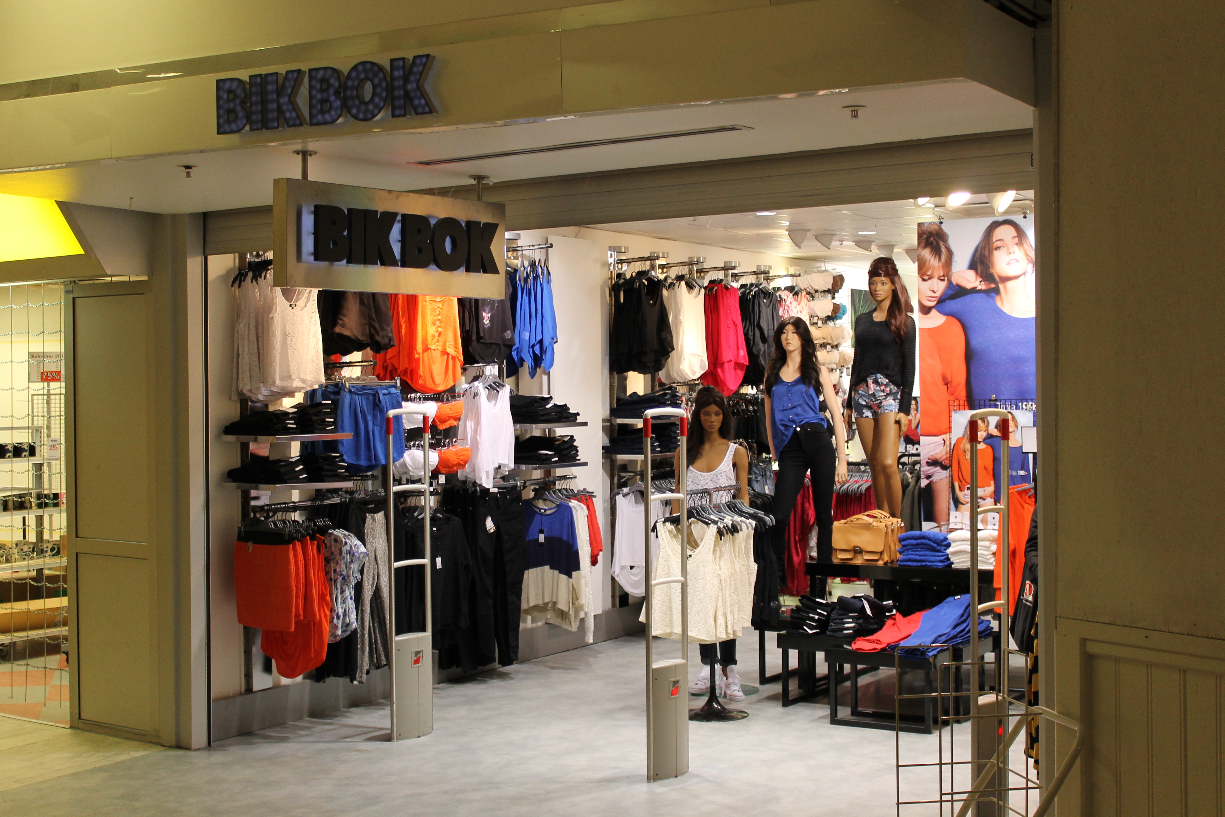 Clothing shop "Bik Bok" in Umeå, Sweden.